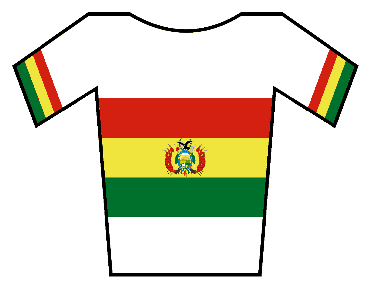 Jersey of the Bolivian national champion